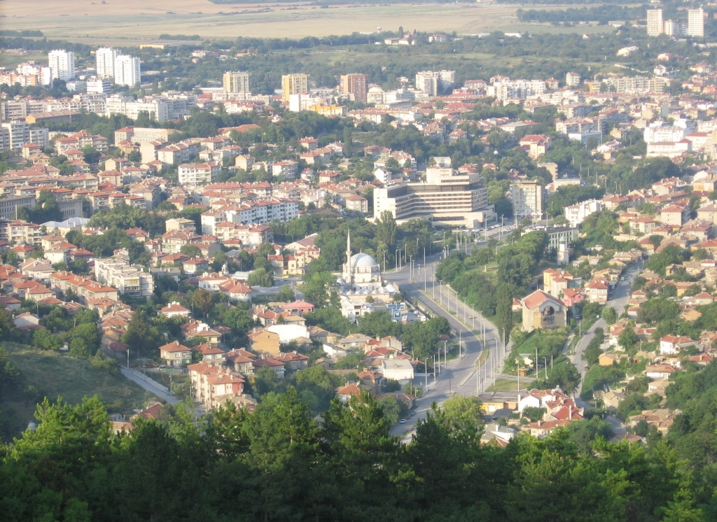 Bulgarian town Shumen, as seen from the Shumen fortress